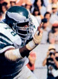 Philadelphia Eagles defensive end Carl Hairston pictured in a defensive play against the Tampa Bay Buccaneers during the 1979 NFC Divisional Playoff Game on December 29, 1979.